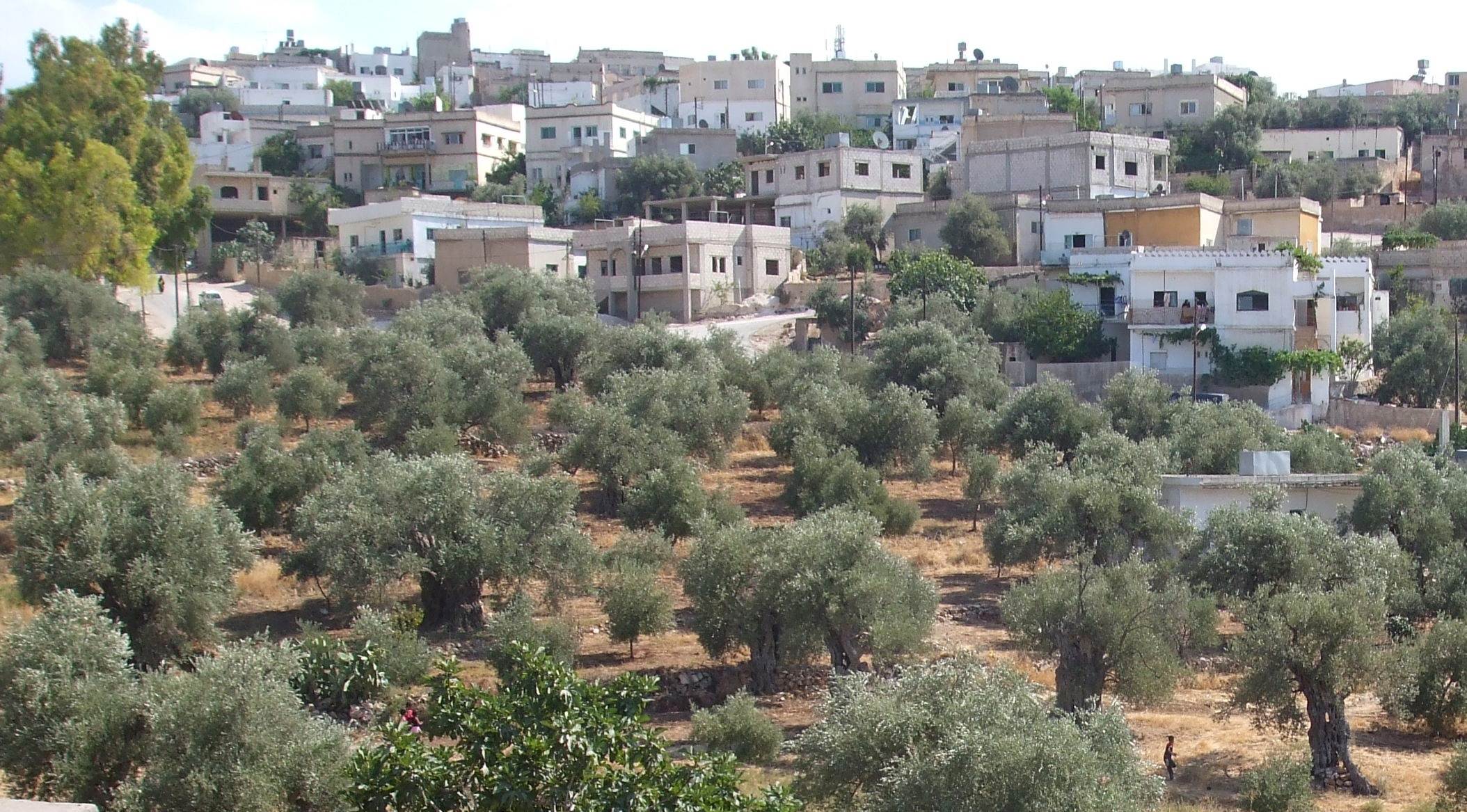 This ancient grove of olive trees is located with the town limits of Hashimiyya, Ajloun, Jordan.